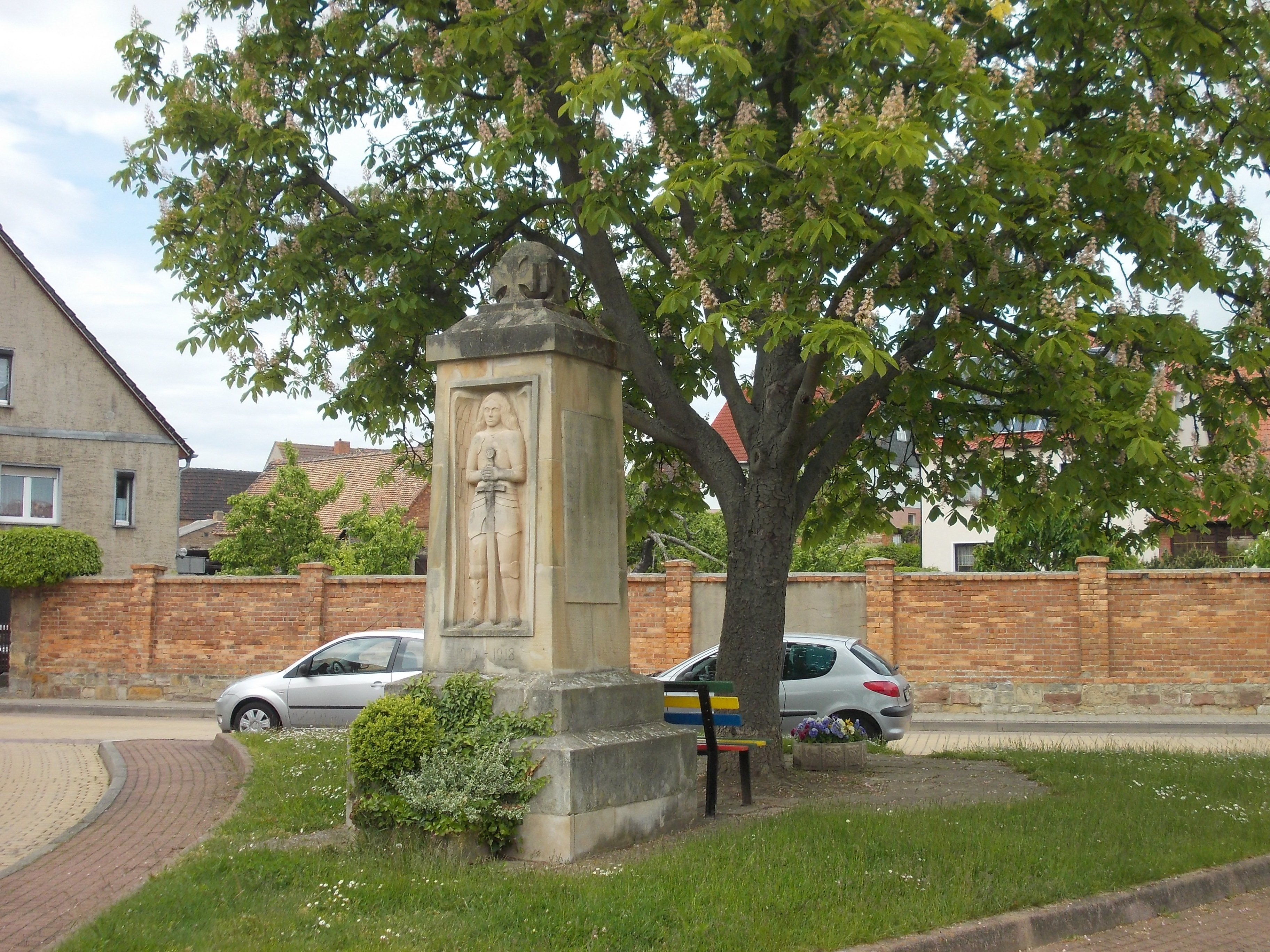 World War I memorial in Leimbach (Querfurt, district: Saalekreis, Saxony-Anhalt)